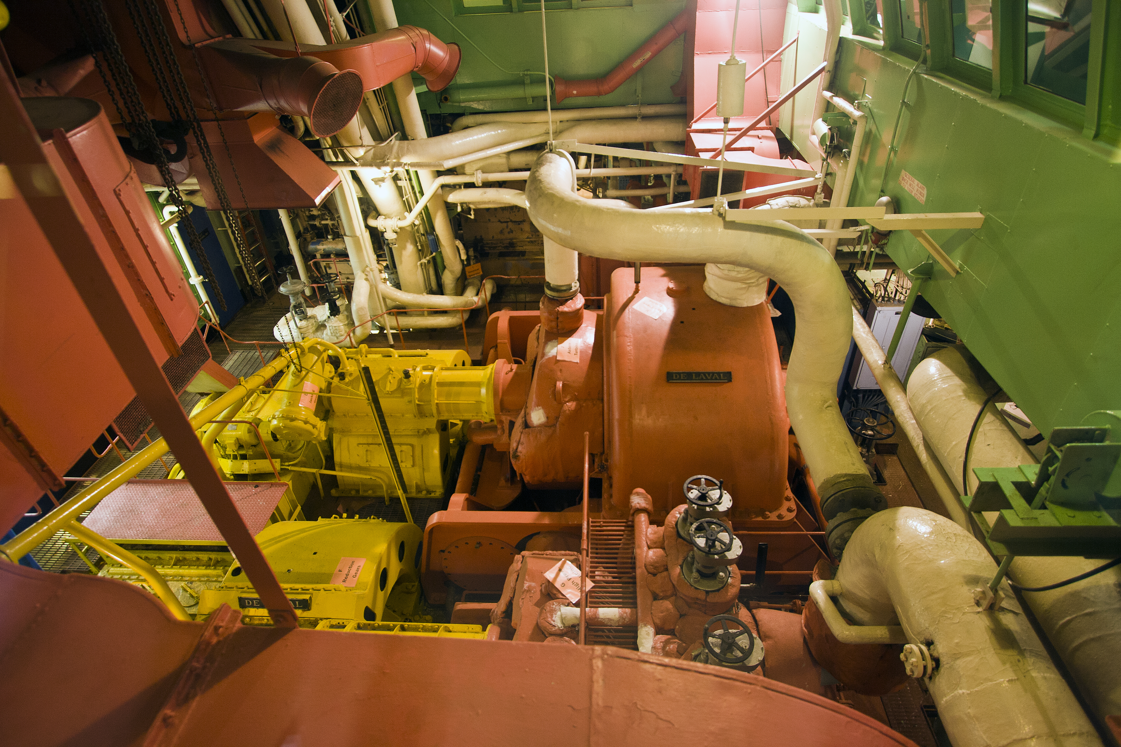 Engine room of the NS Savannah, Baltimore, Maryland, USA